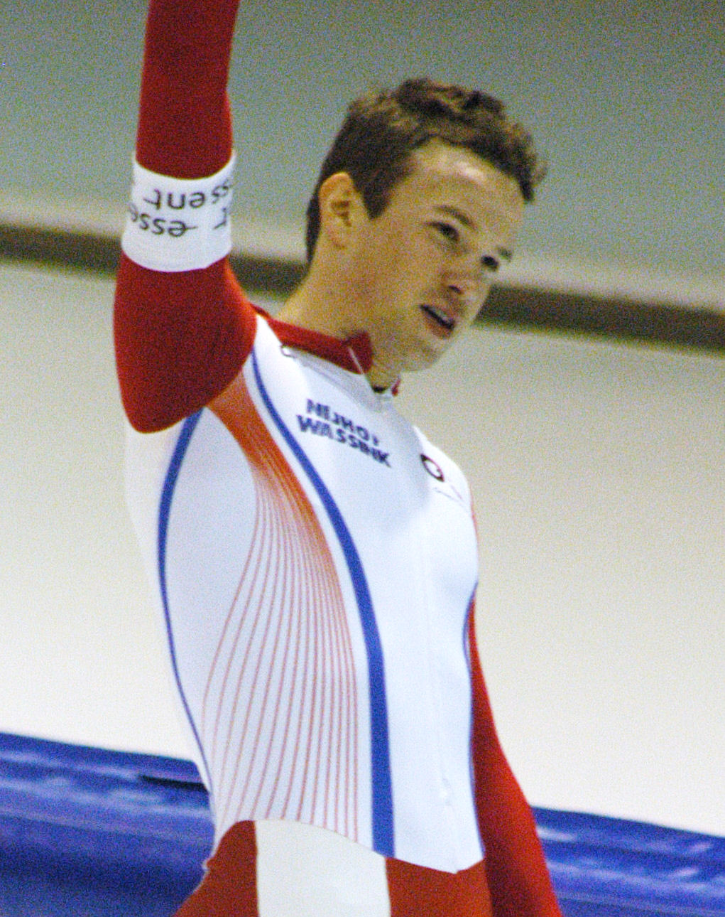 Maciej Ustynowicz (POL) at a world cup speedskating in Heerenveen, the Netherlands.